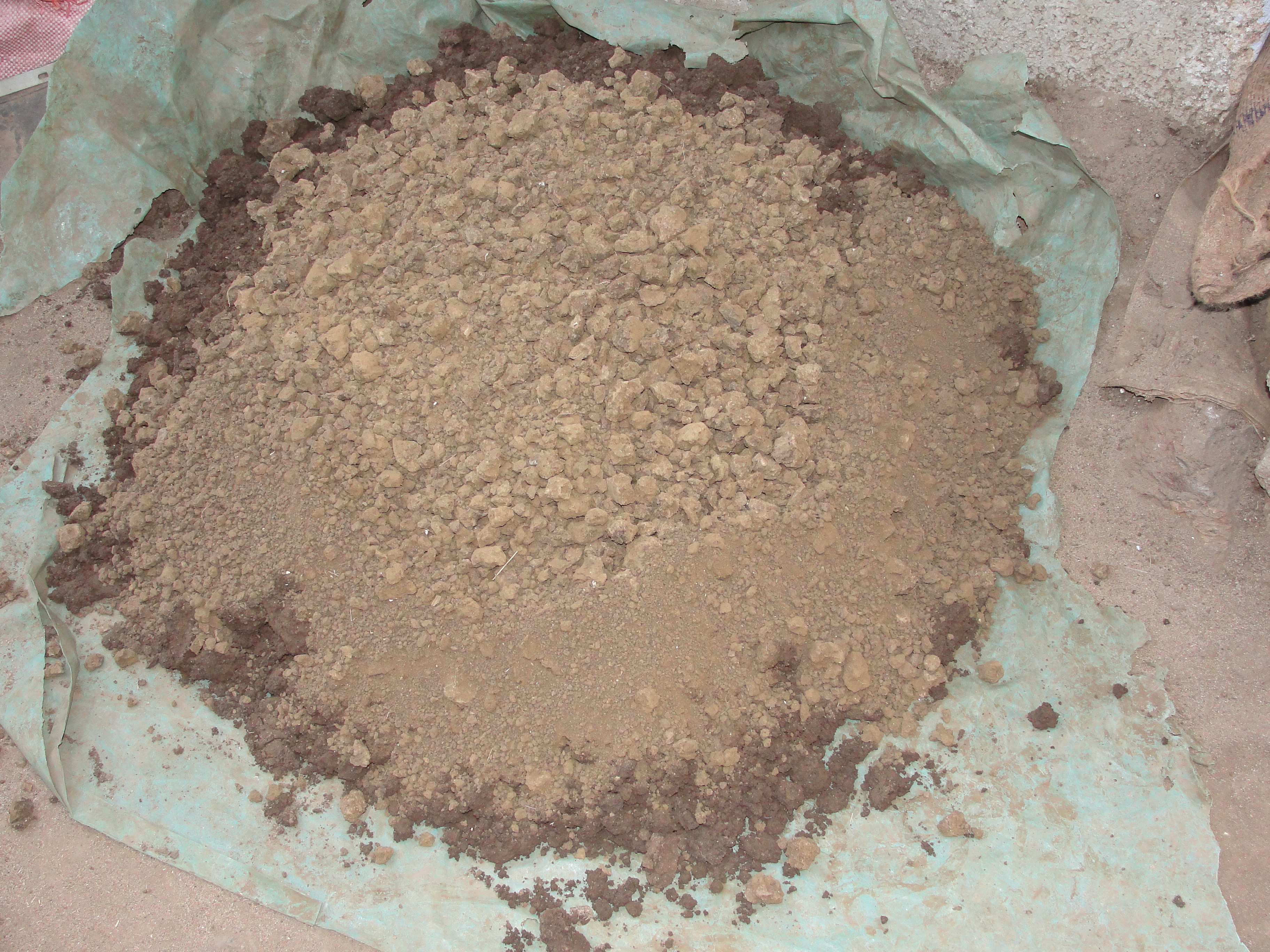 A depiction of clay for pot making